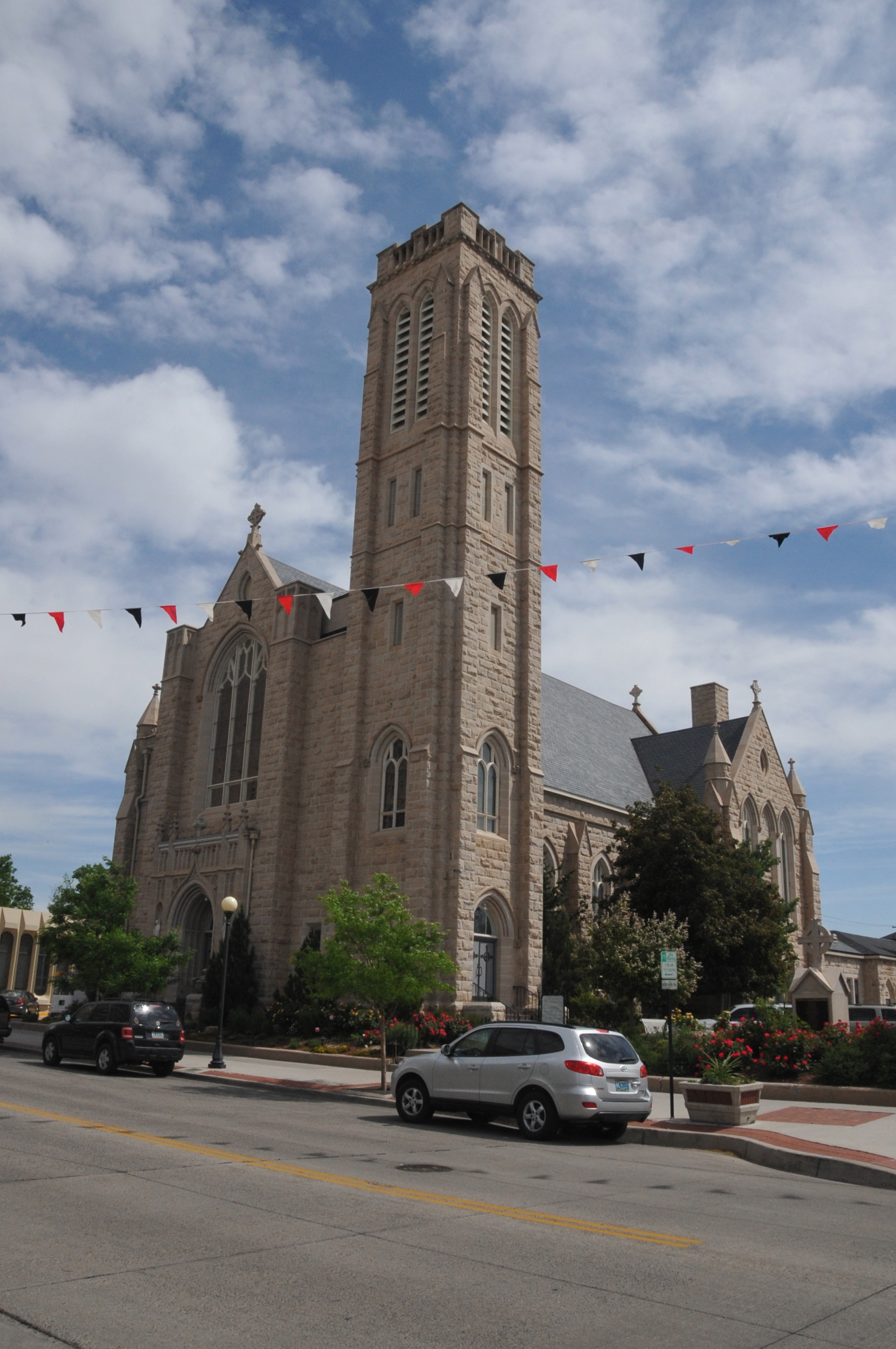 CONSTRUCTION WAS STARTED IN 1906; HAS EXCELLENT STAINED GLASS WINDOWS IMPORTED FROM EUROPE